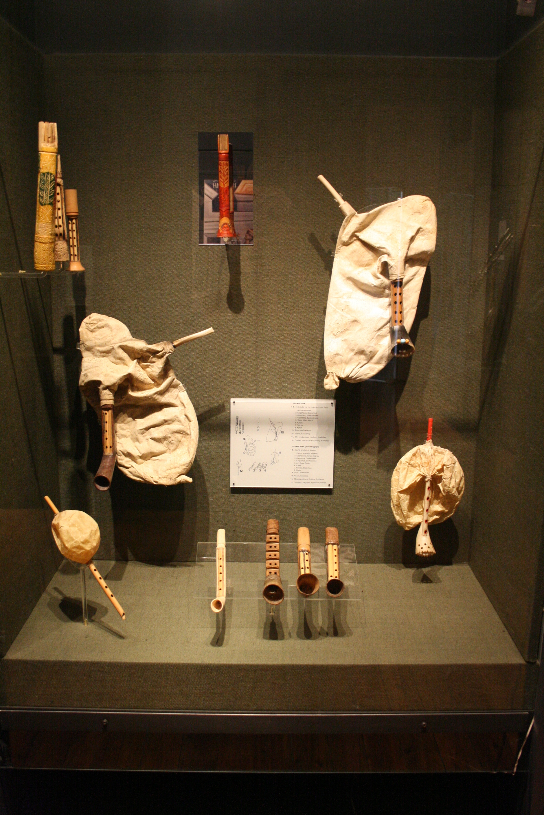 Different types and pipes of Tsambouna (traditional greek island bagpipes), coming from Cyclades and Dodecanese. In the Museum of Greek Traditional Music Instruments in Athens.